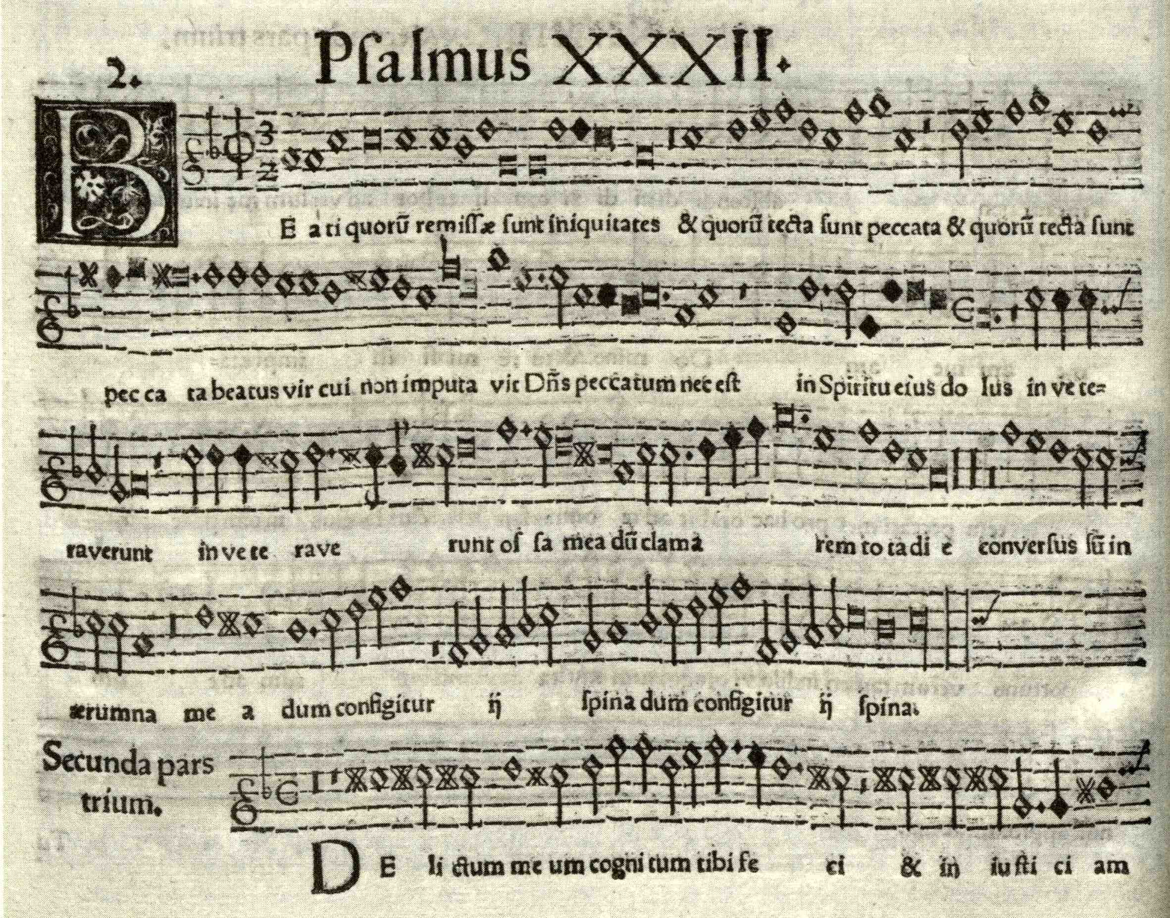 The page from the Seven Pentiential Psalms for Five Voices by Simon Bar Jona Madelka.